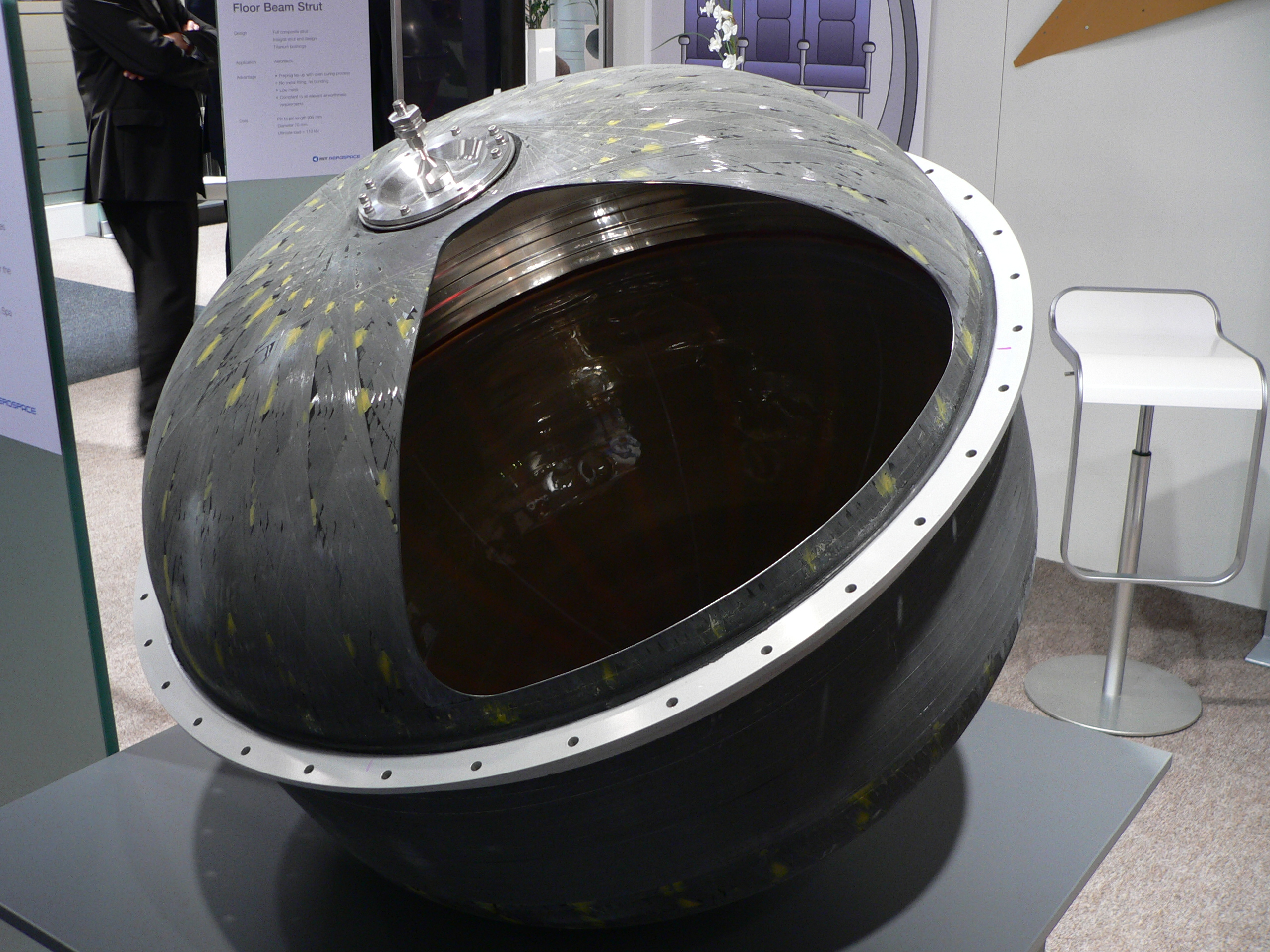 Water tank for the ATV cargo carrier, by MT Aerospace Design: Deep drawn steel liner overwrappe with composite and internally equipped with PTFE bladder Application: Storage of potable water or liquid waste Material: liner: stainless steel; composite: C-fibre / epoxt Manufacturing: liner: deep drawn & welded hemispheres; composite: overwrap Prime contractor of the subsystem: THALES ALENIA SPACE - ITALIA Spa